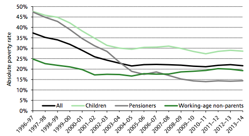 Absolute poverty rates (After Housing Costs) in the UK , by family type, 1997-2014